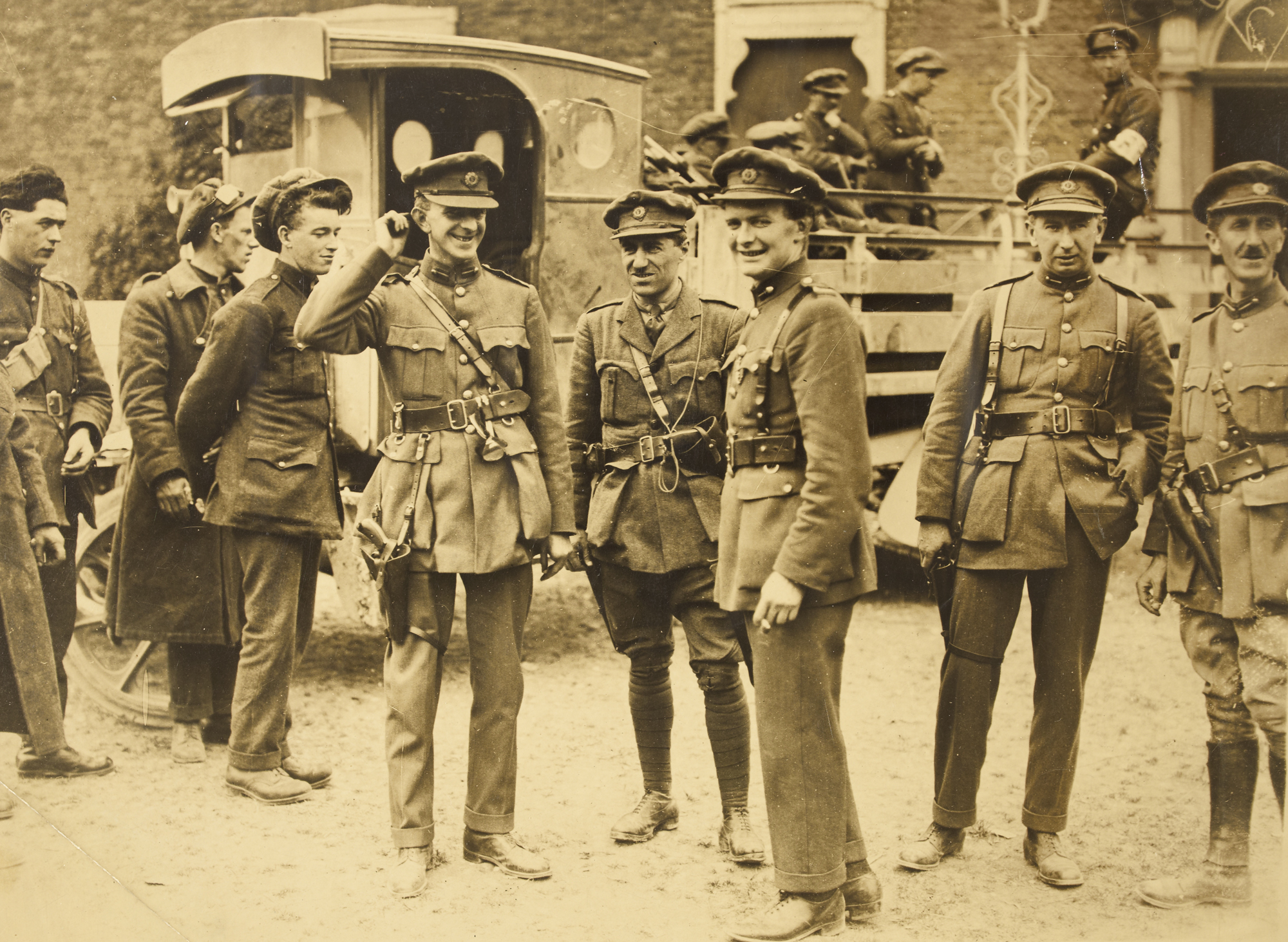 URGENT REQUEST from our researchers in the Library - IDENTIFY the Generals in this Photograph We are fairly confident that the identification, left to right, goes: Eoin O’Duffy, Unknown, Michael Brennan, Fionán Lynch, WRE Murphy, and it’s the Unknown we’d like to track down. There was a lot of interest in this photo, with lots of comments, corrections and questions. In the heel of the hunt the combined wisdom of the NLI flickr community suggests that in all probability the unknown is: BARRA O'BRIAIN His image is not very well represented on the net. The suggestion is that you have a look at the non digitised photo - and let us know your views at that point. Photographer: W. D. Hogan Collection: Hogan-Wilson Collection , Date: Circa 1922 NLI Ref.: HOG128 You can also view this image, and many thousands of others, on the NLI’s catalogue at